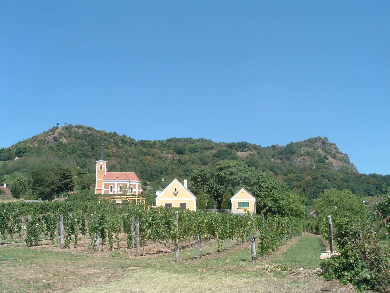 The Mount Szent György from Hegymagas